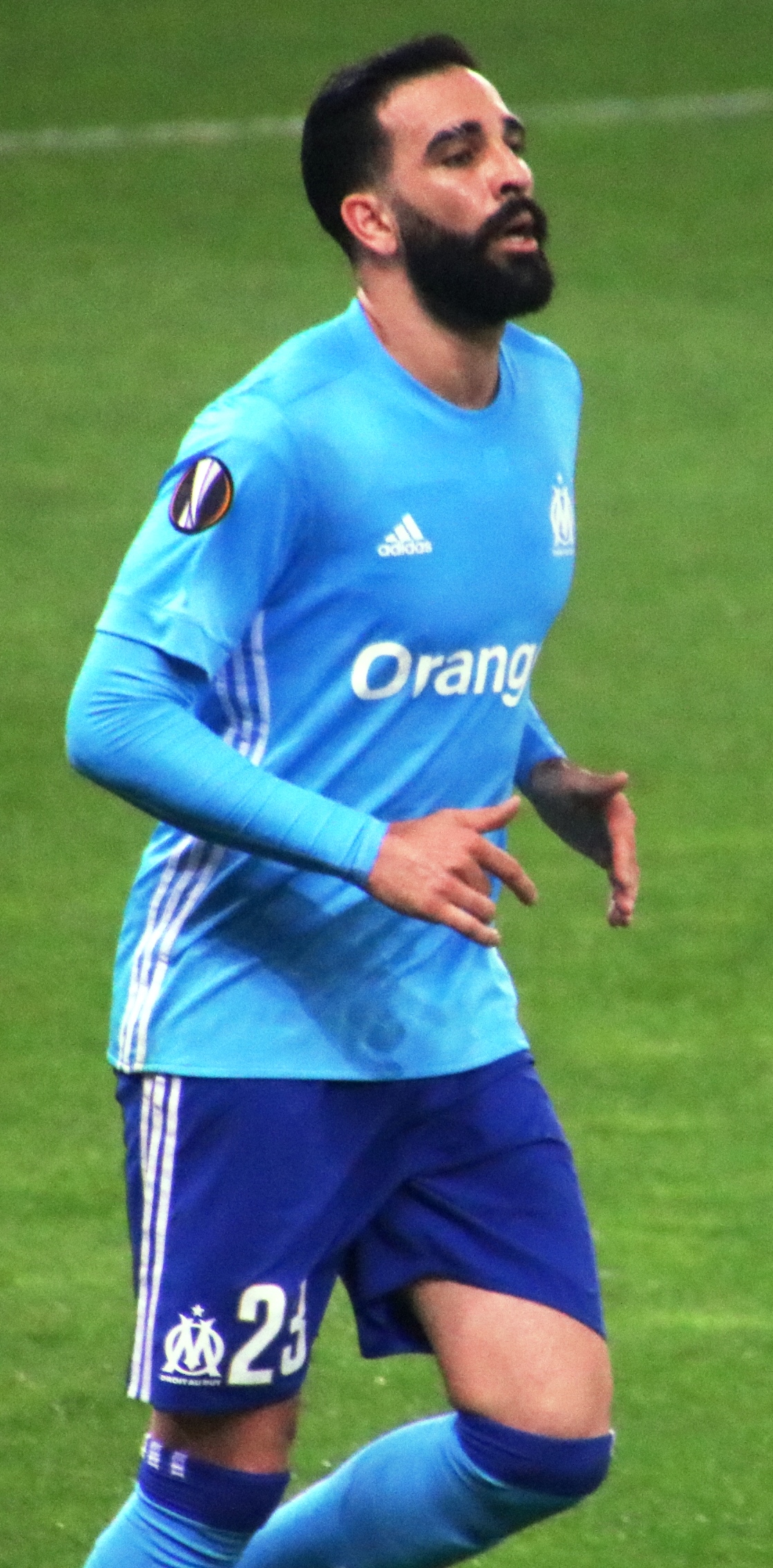 UEFA Euroleague semifinal 2nd leg